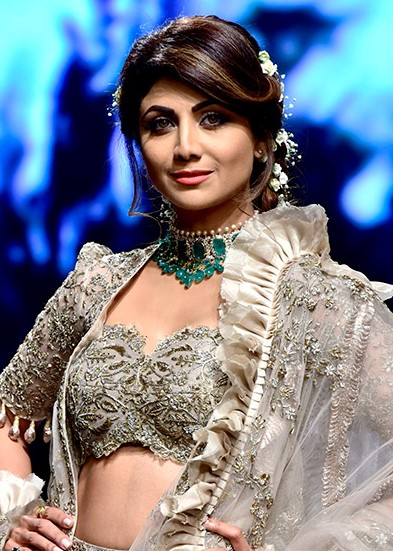 Shilpa Shetty walks the ramp at the Lakme Fashion Week 2018.